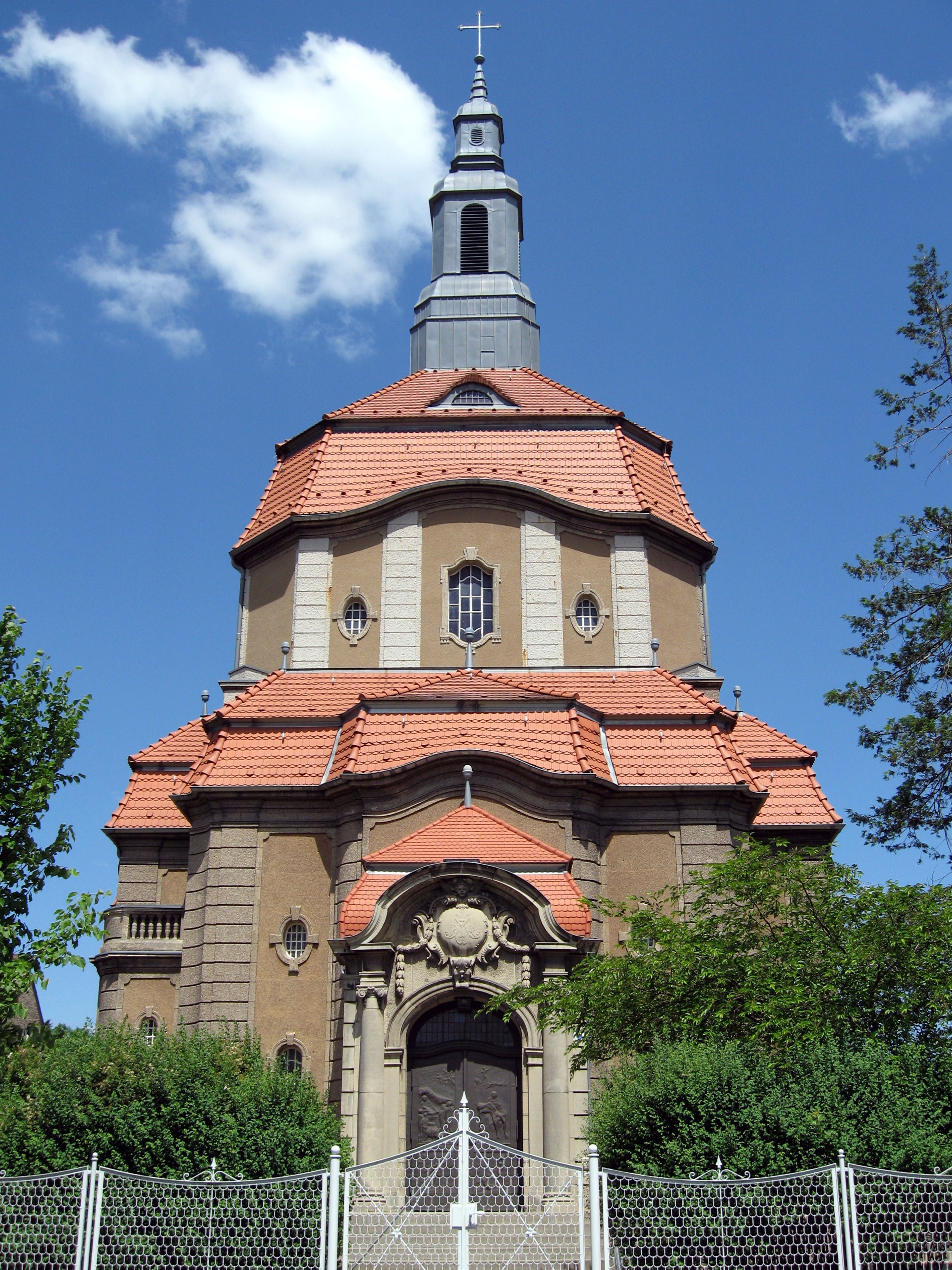 Katholic curch St. Marien in Biesenthal, Barnim, Brandenburg, Germany; neo-baroque 1908/9 by Paul Ueberholz